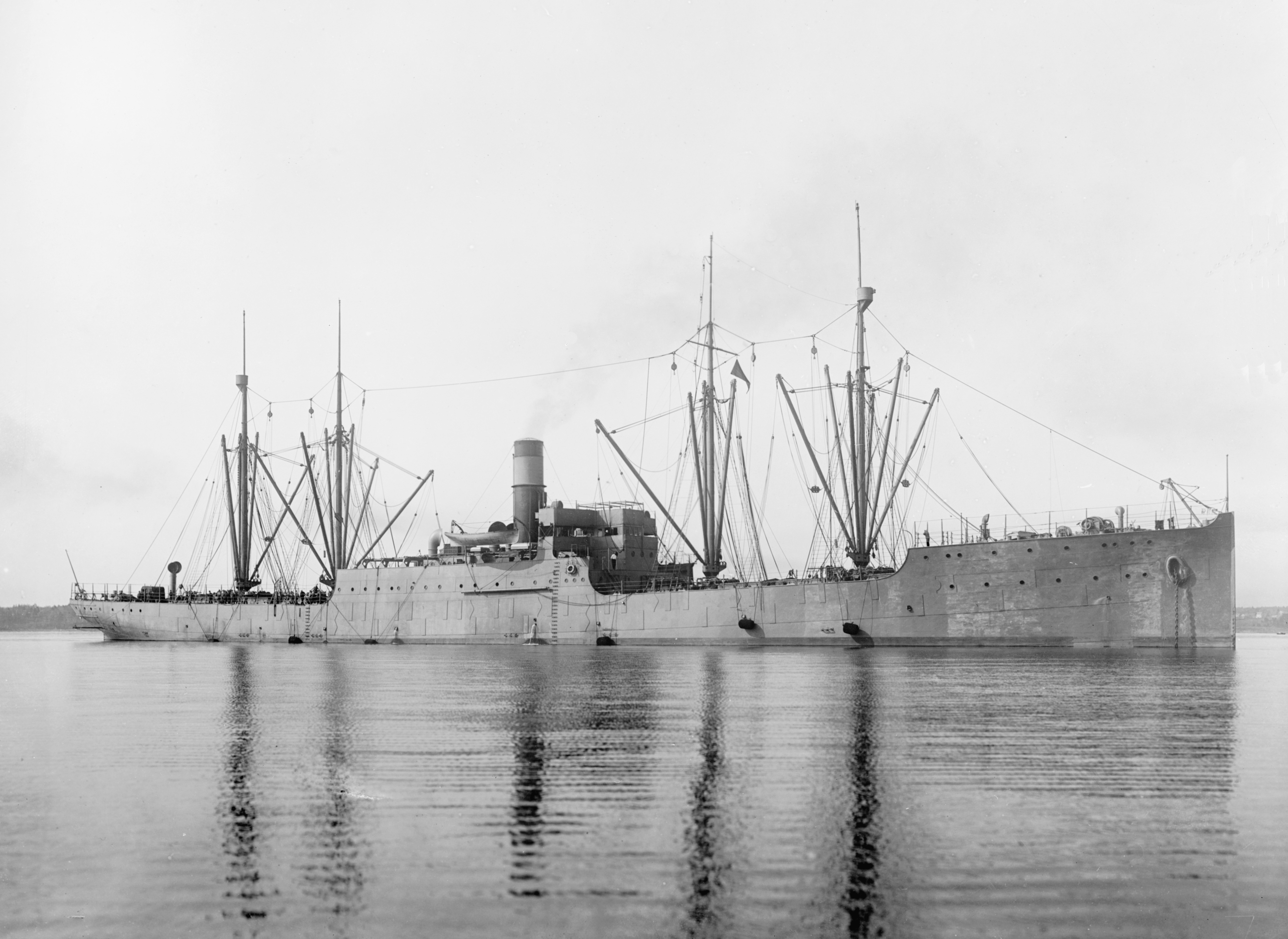 The U.S. Navy collier USS Vestal (AC-1) photographed circa 1909-1912, while serving as a fleet collier prior to her conversion to a repair ship.